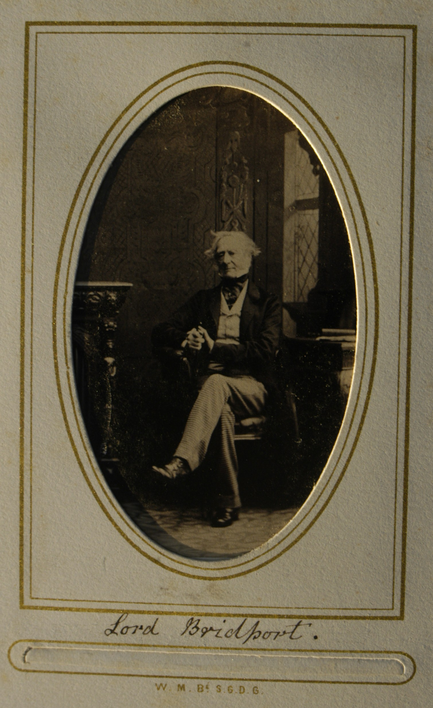 My photo (Rodolph (talk) 22:22, 11 August 2013 (UTC)) of a 1862 albumen print carte de visite of Samuel Hood, 2nd Lord Bridport by Camille Silvy, in his friend Colonel Bisse-Challoner's album. Other information An albumen print of Lord Bridport (1788-1868).